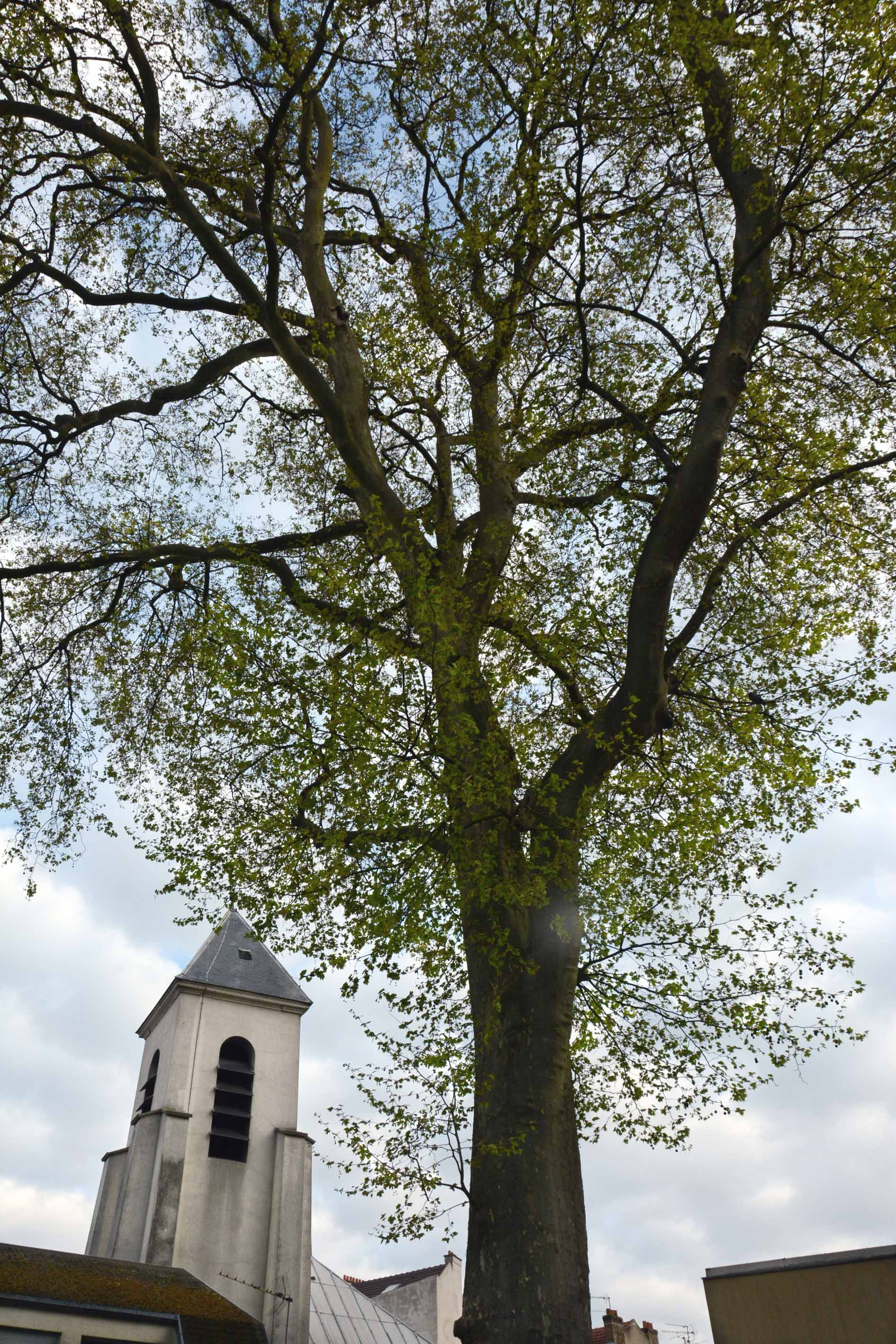 The Liberty Tree